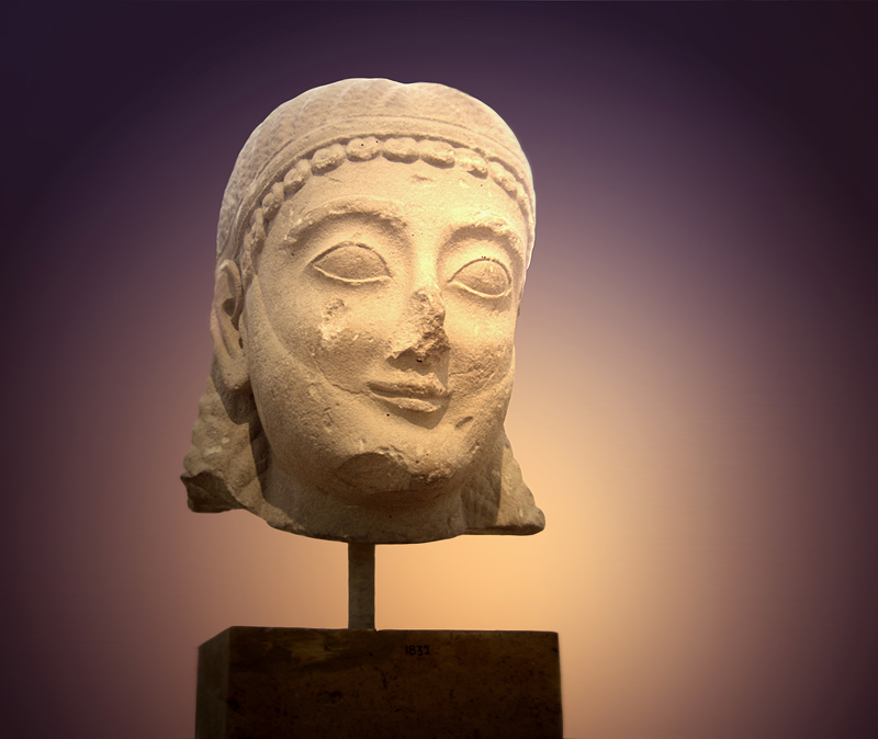 Head of a Kouros, National Archaeological Museum in Athens .